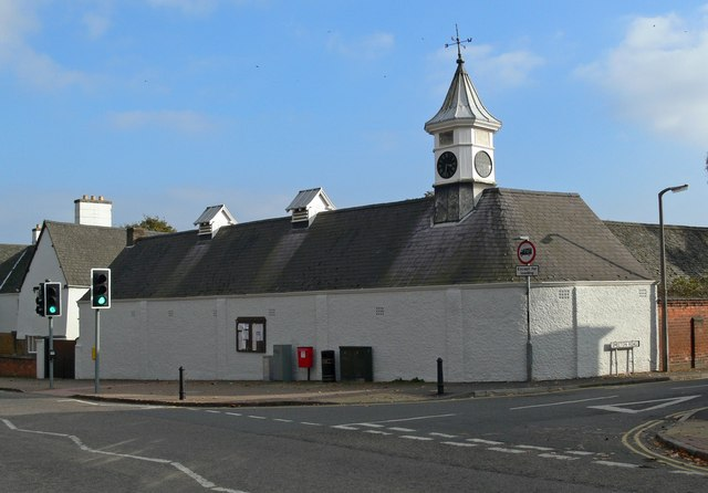 Kibworth Beauchamp High Street At the corner of Smeeton Road.